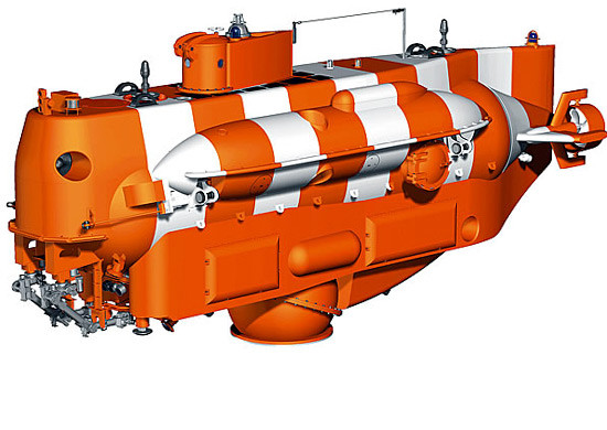 Bester-1.